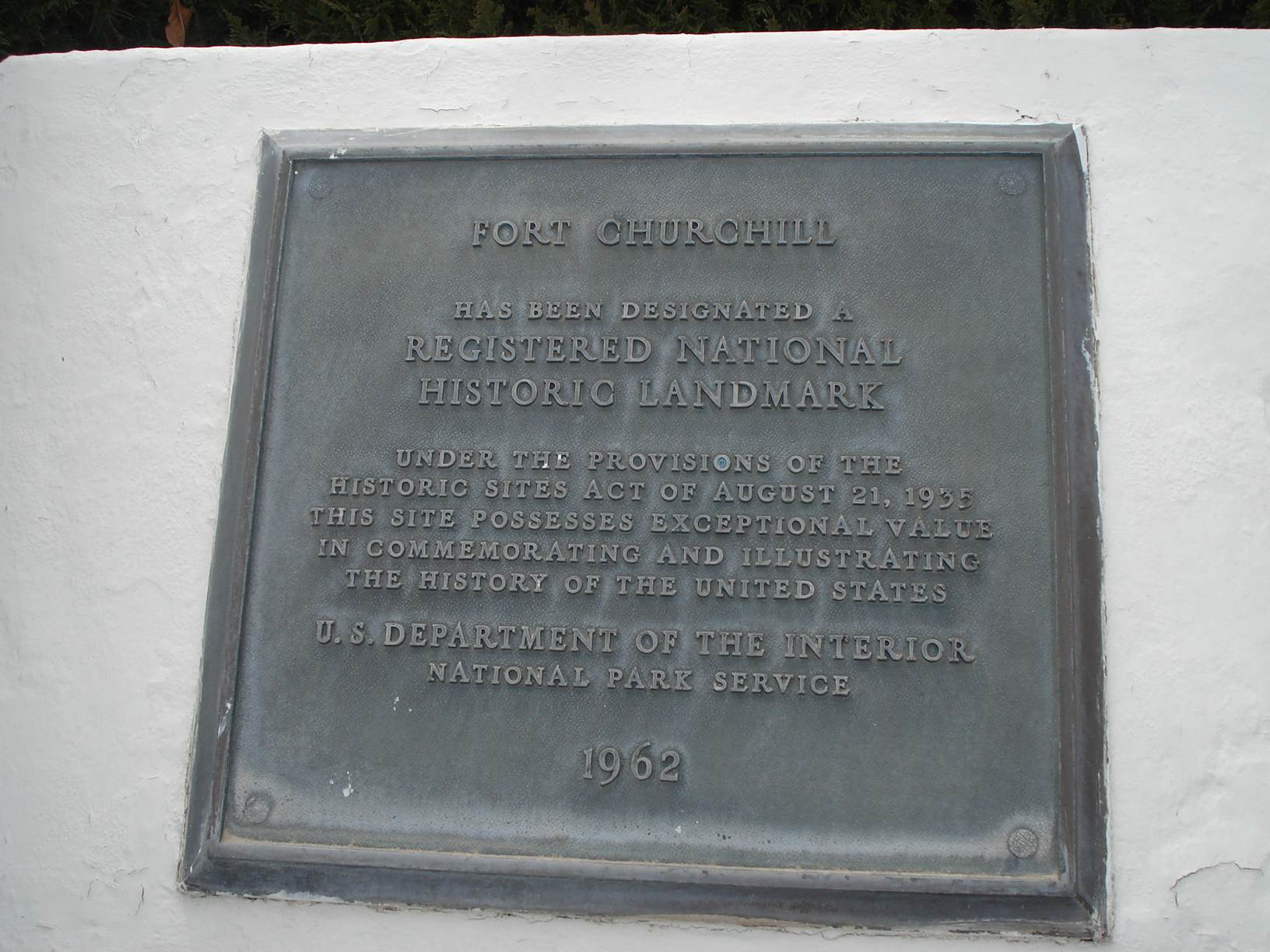 Plaque at Fort Churchill State Historic Park in Nevada, United States